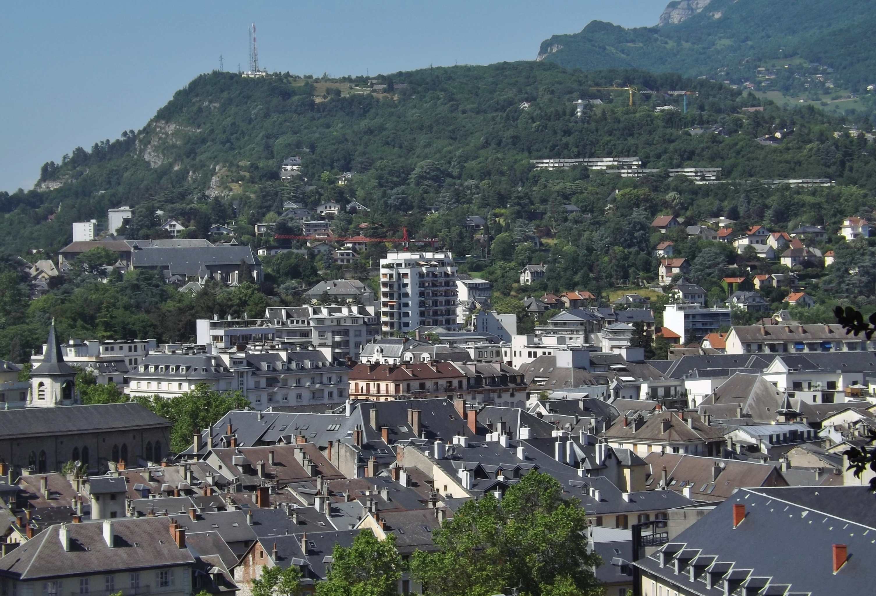 Panoramic sight on the south-eastern part of the French of Chambéry old center, with visible at the background the église de Lémenc on the Lémenc hill, and the tower masts on Les Monts, in Savoie.